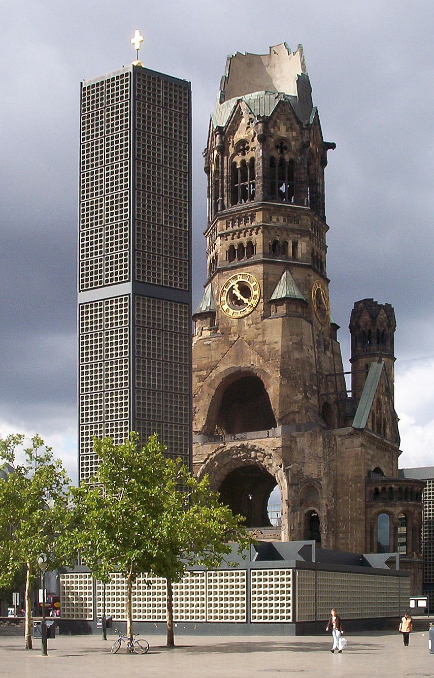 The Kaiser Wilhelm Memorial Church in Berlin.